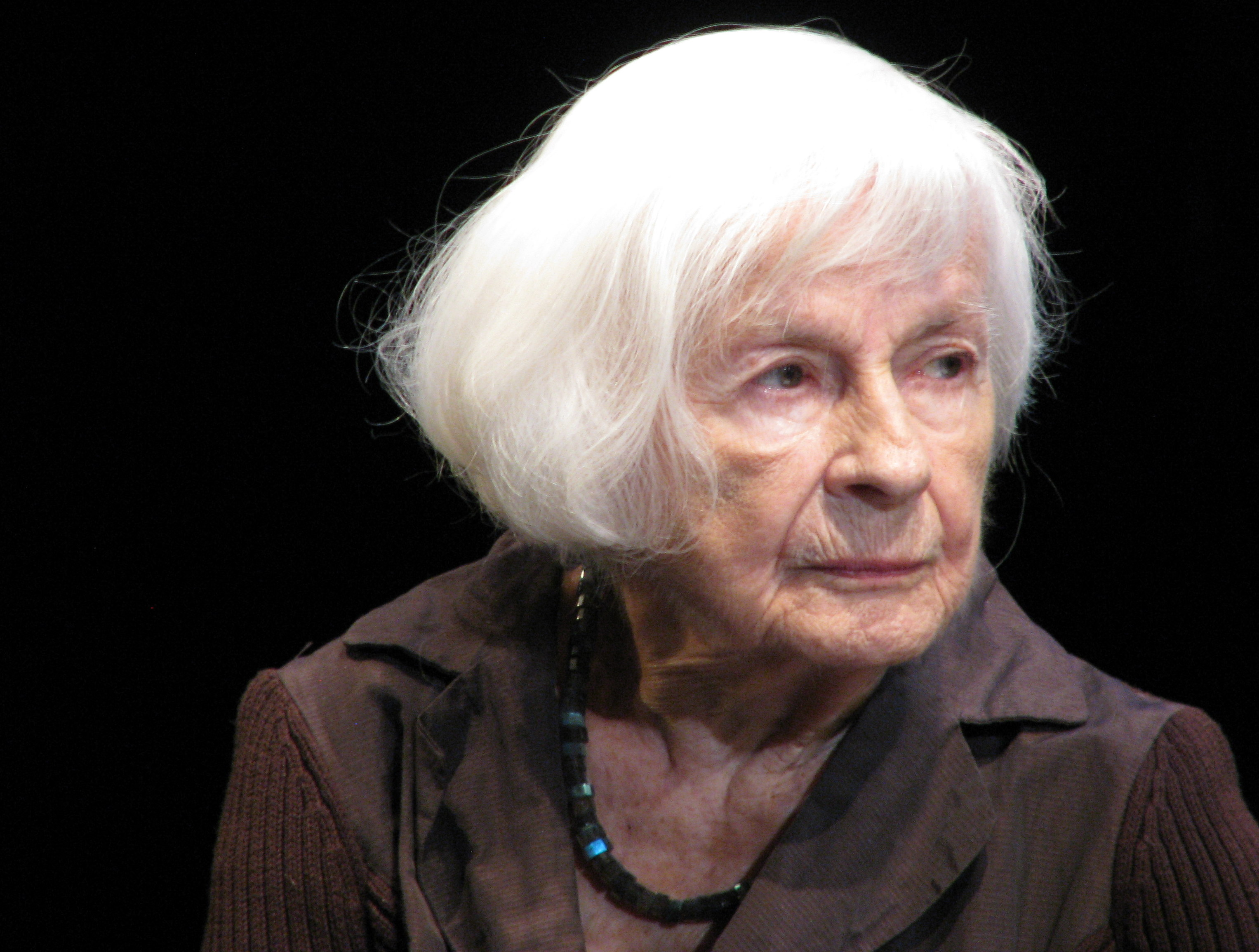 Danuta Szaflarska (b. February 6, 1915 in Kosarzyska, Poland) - Polish actor. She lives in Warsaw, Poland